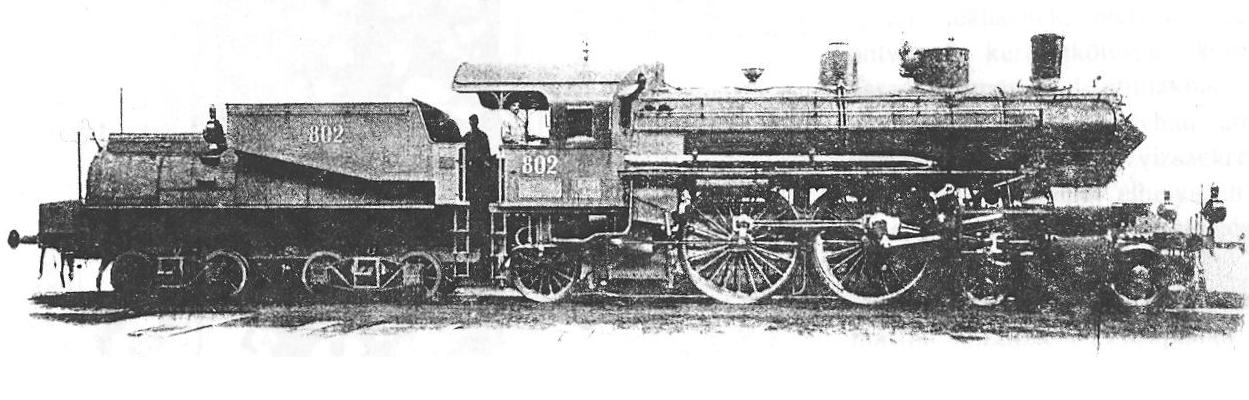 MAV Steam Loco Class In. (later 203)